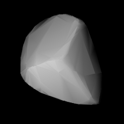 3D convex shape model of 1555 Dejan, computed using light curve inversion techniques. J. Hanuš, J. Ďurech, M. Brož, B. D. Warner (June 2011). "A study of asteroid pole-latitude distribution based on an extended set of shape models derived by the lightcurve inversion method". Astronomy and Astrophysics 530: A134. ISSN 0004-6361. arXiv